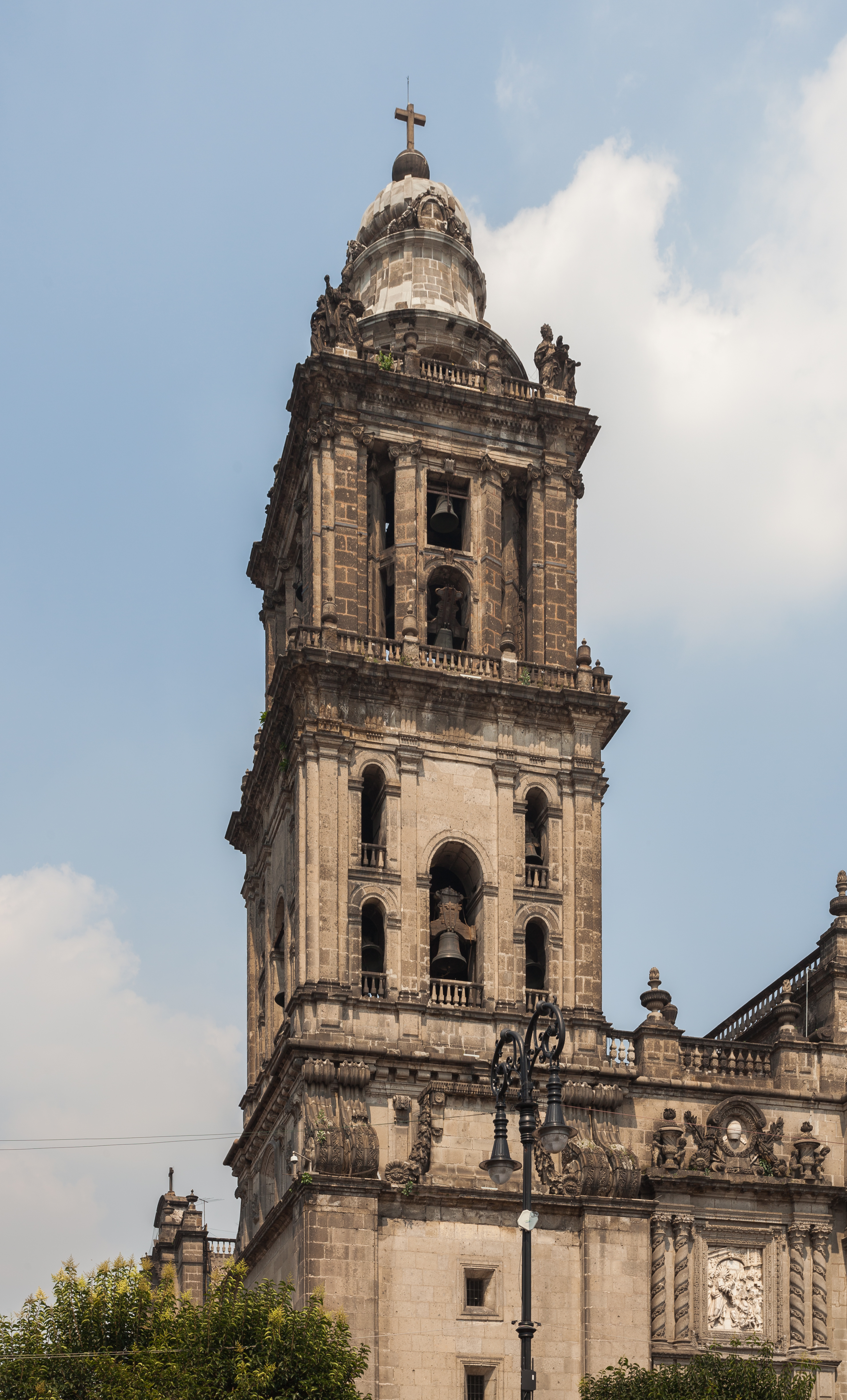 Metropolitan Cathedral, Mexico City, México